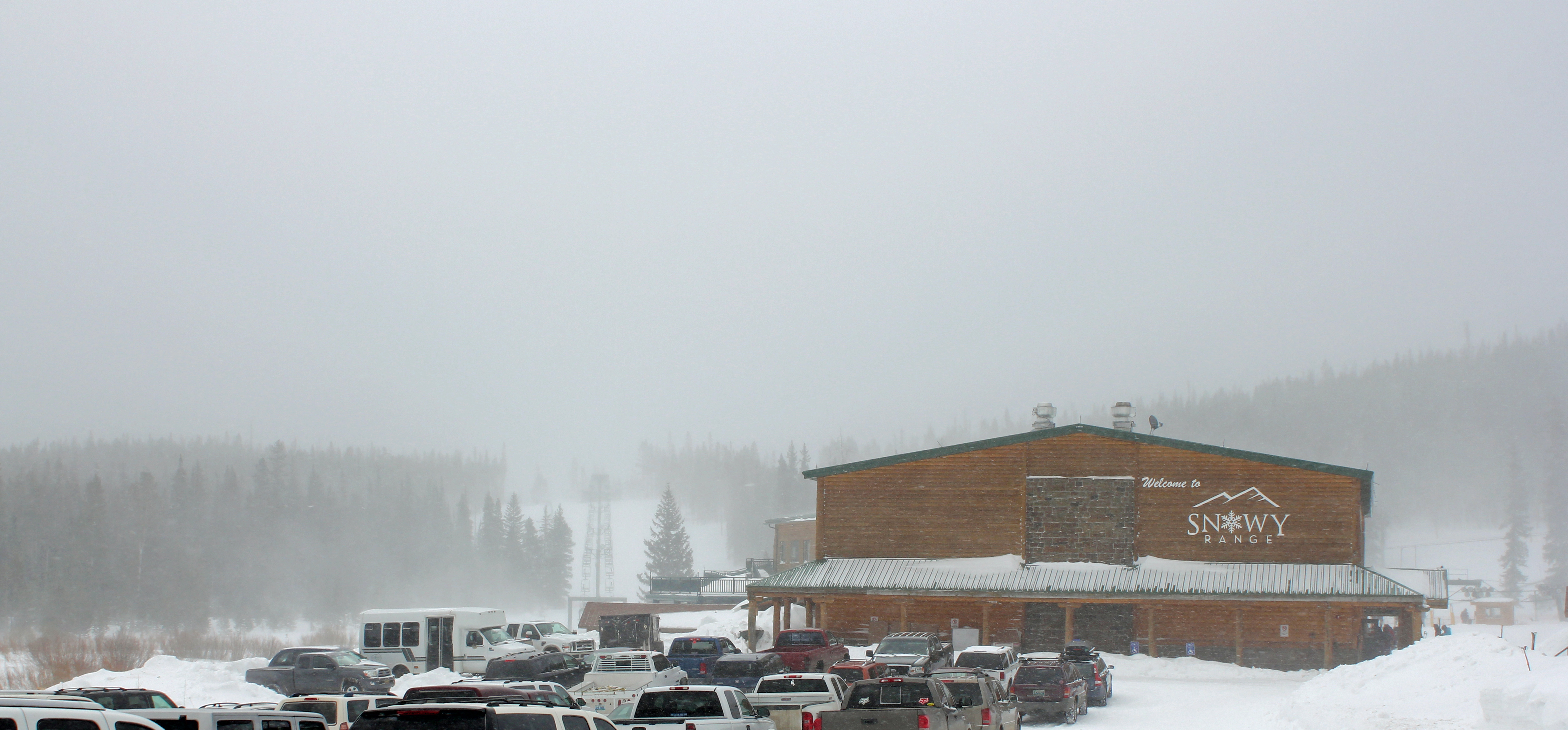 The Snowy Range Ski Area, located off Wyoming Highway 130, in the Medicine Bow National Forest near Centennial, Wyoming.